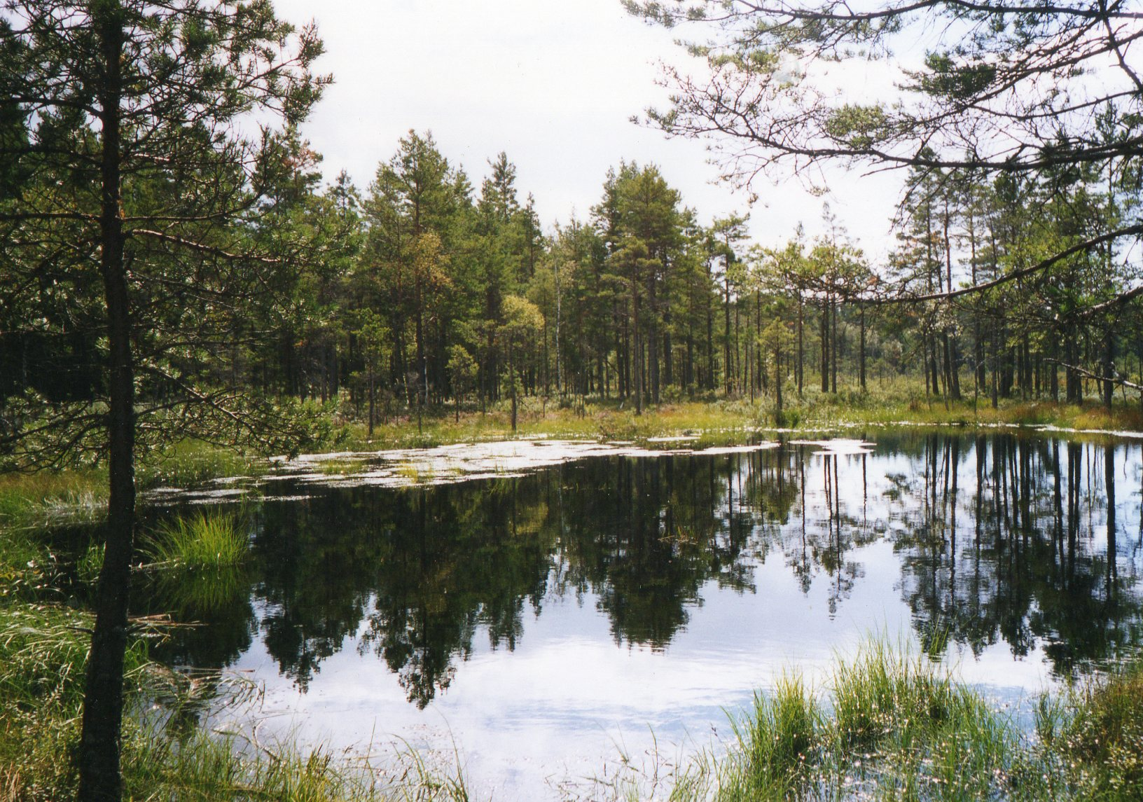 Tarn (lake) In Sweden. Store mosse.